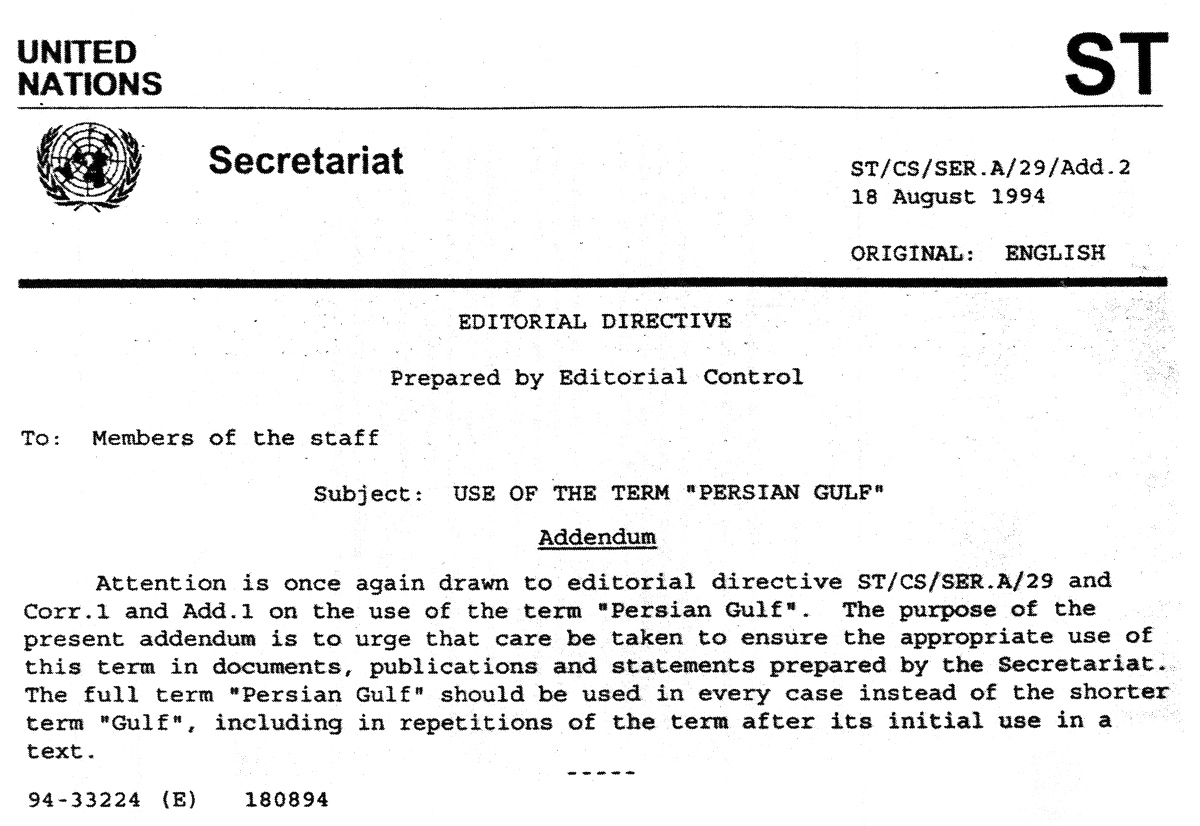 United Nations secretariat's decision on the Persian Gulf naming dispute. This is a digital image that Zereshk version of the UN letter, which published in the public domain in [1] and in the book "Documents on the Persian Gulf's name[2] in Iran 2004 and 2009.